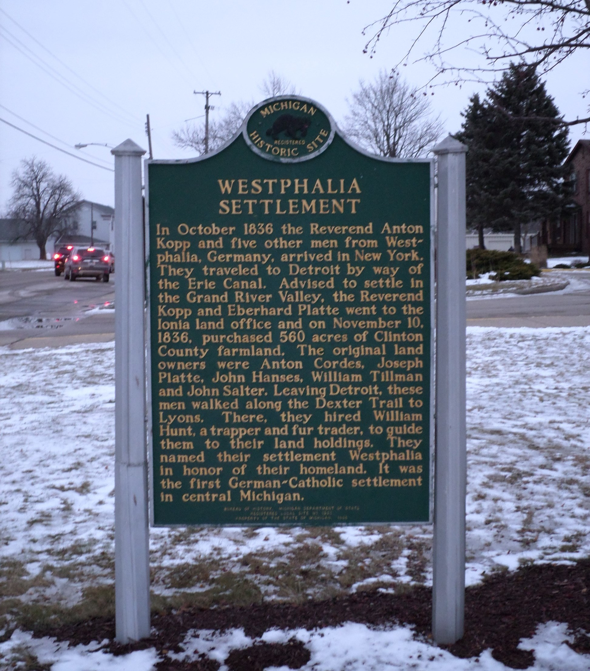 A sign honoring the village of Westphalia, located at 201 N Westphalia St, Westphalia, MI.